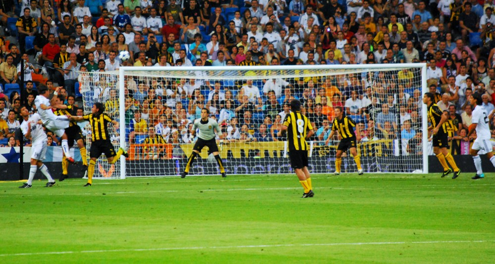 Peñarol vs Real Madrid at Santiago Bernabeu Stadium